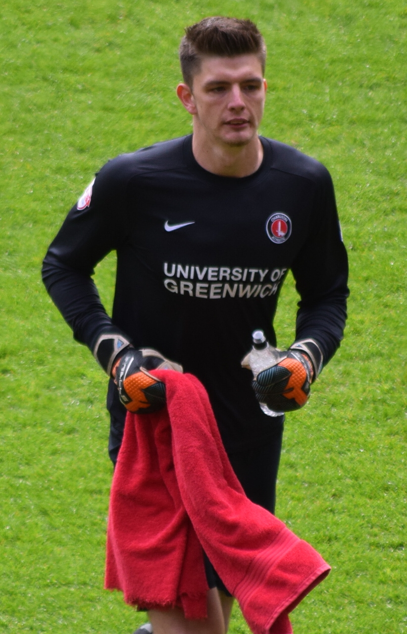 Nick Pope playing for Charlton Athletic against Brighton & Hove Albion at the Valley, London on 23 April 2016